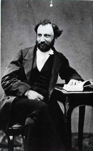 Joel Ballin (1822-1885), Danish engraver